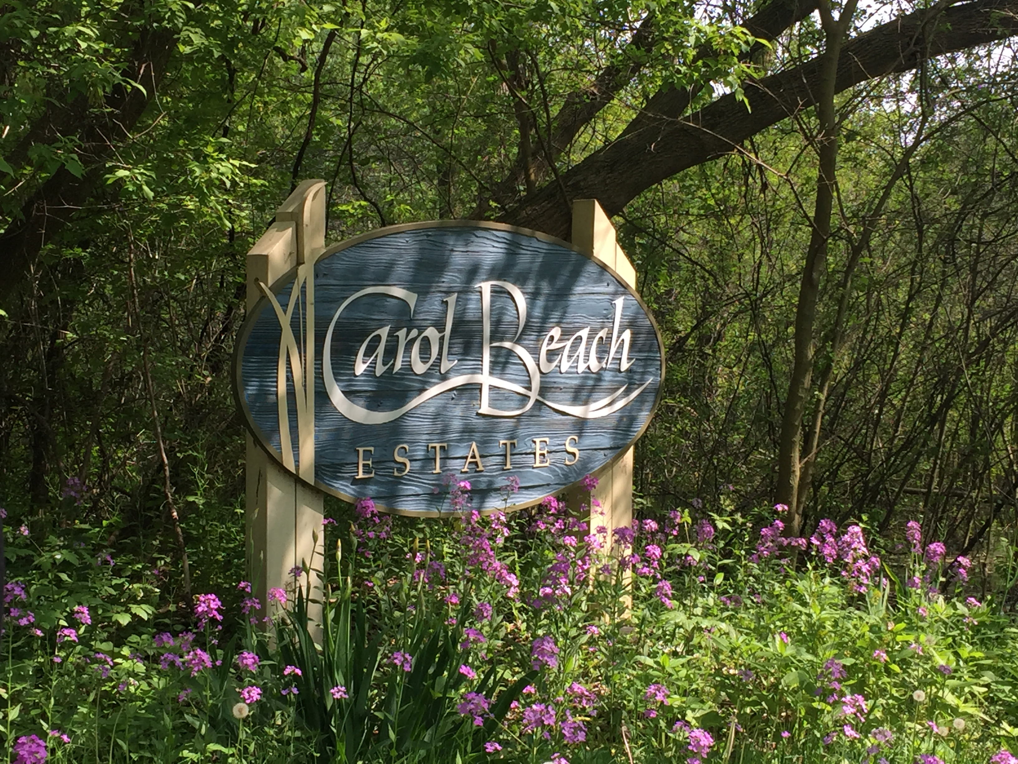 Sing a North Entry